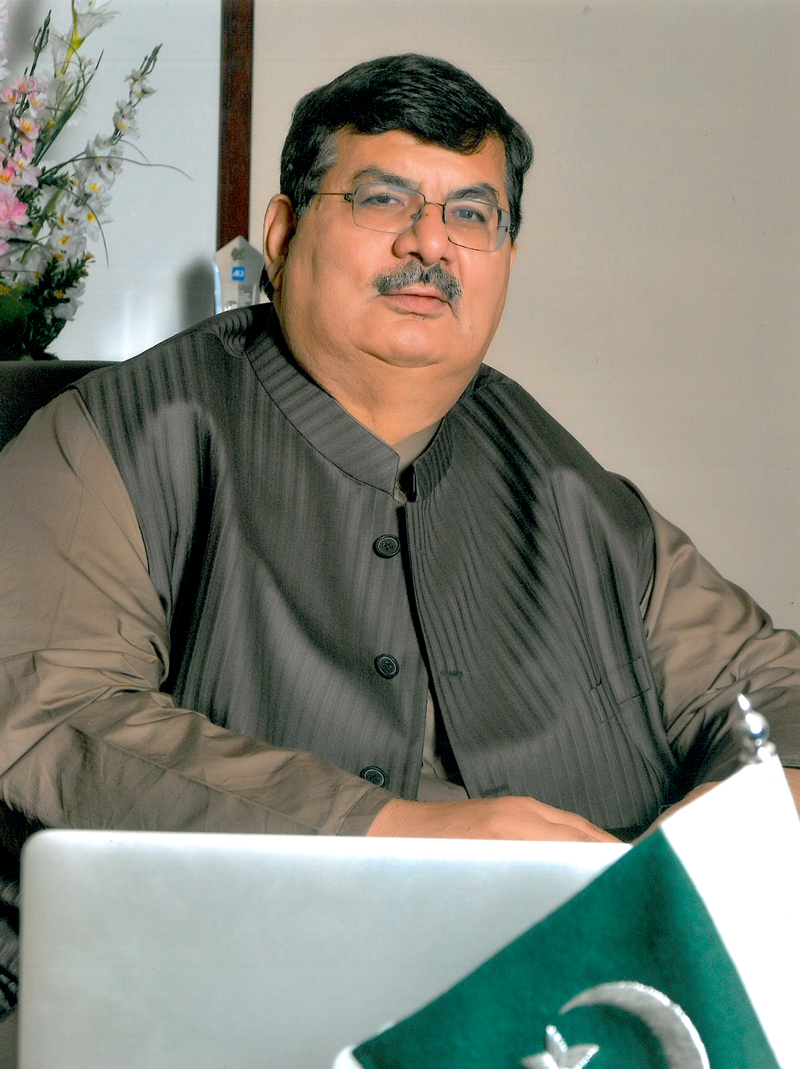 Aqeel Karim Dhedhi born on 18th July 1957, is the Chairman of the AKD Group based in Karachi, Pakistan.